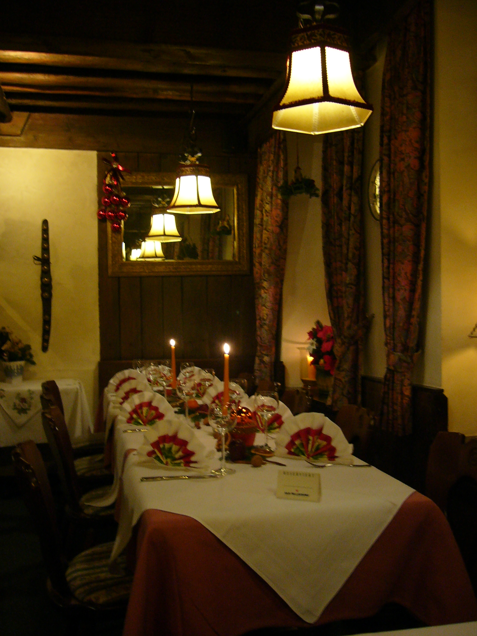 Table setting in a restaurant in Munich, Germany.